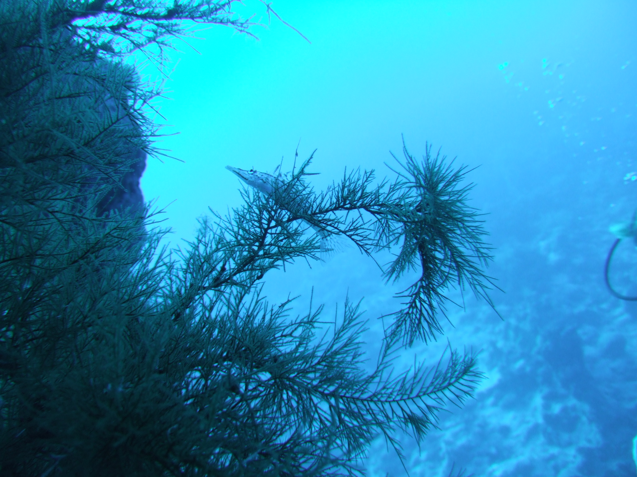 diving in the red sea - hurgahda - Abu Ramada Cave - Pizzaofen - Langnasenbüschelbarsch. Algae is probably Cystoseira sp.